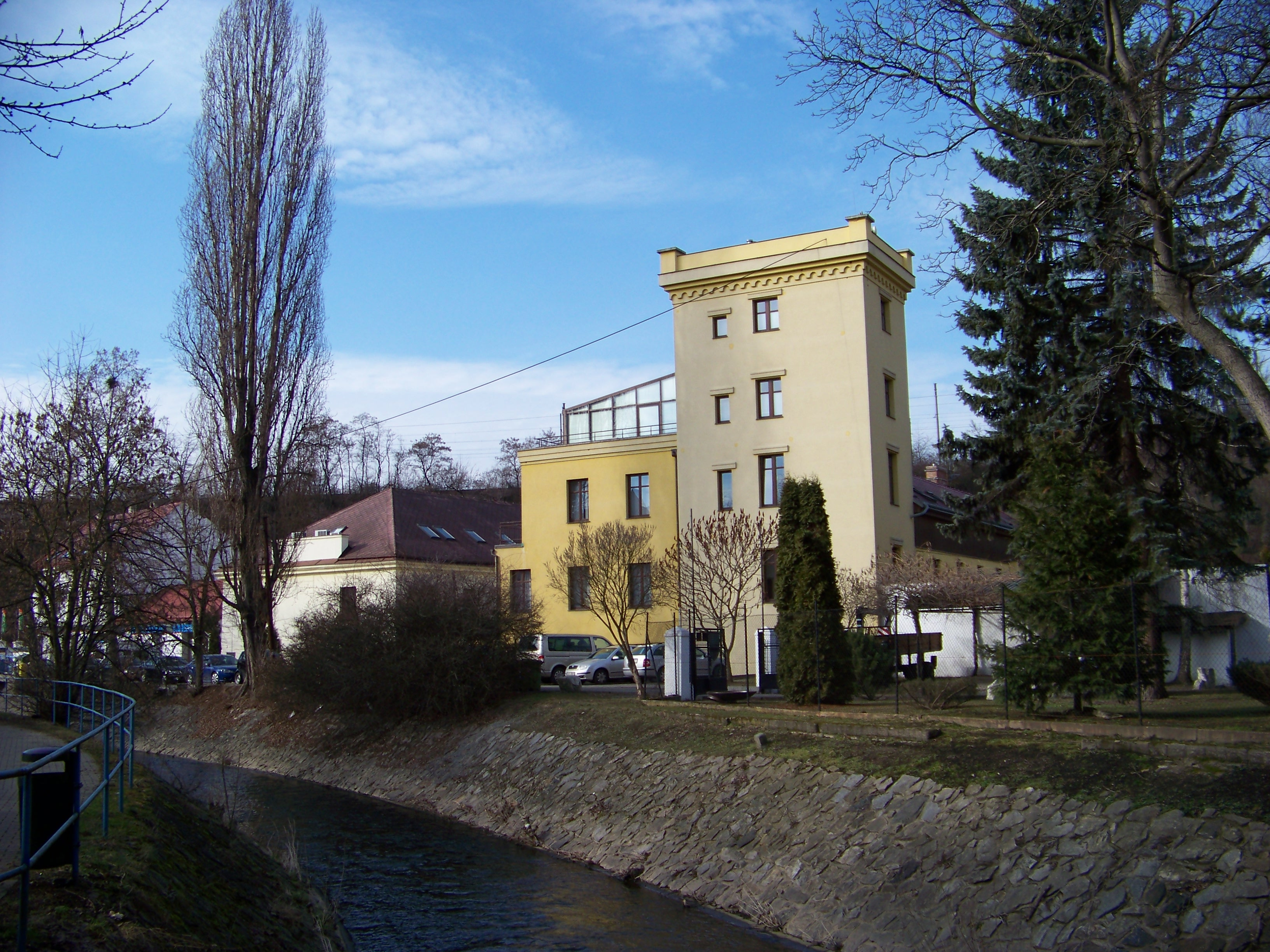 Prague-Libeň, the Czech Republic. Kolčavka.